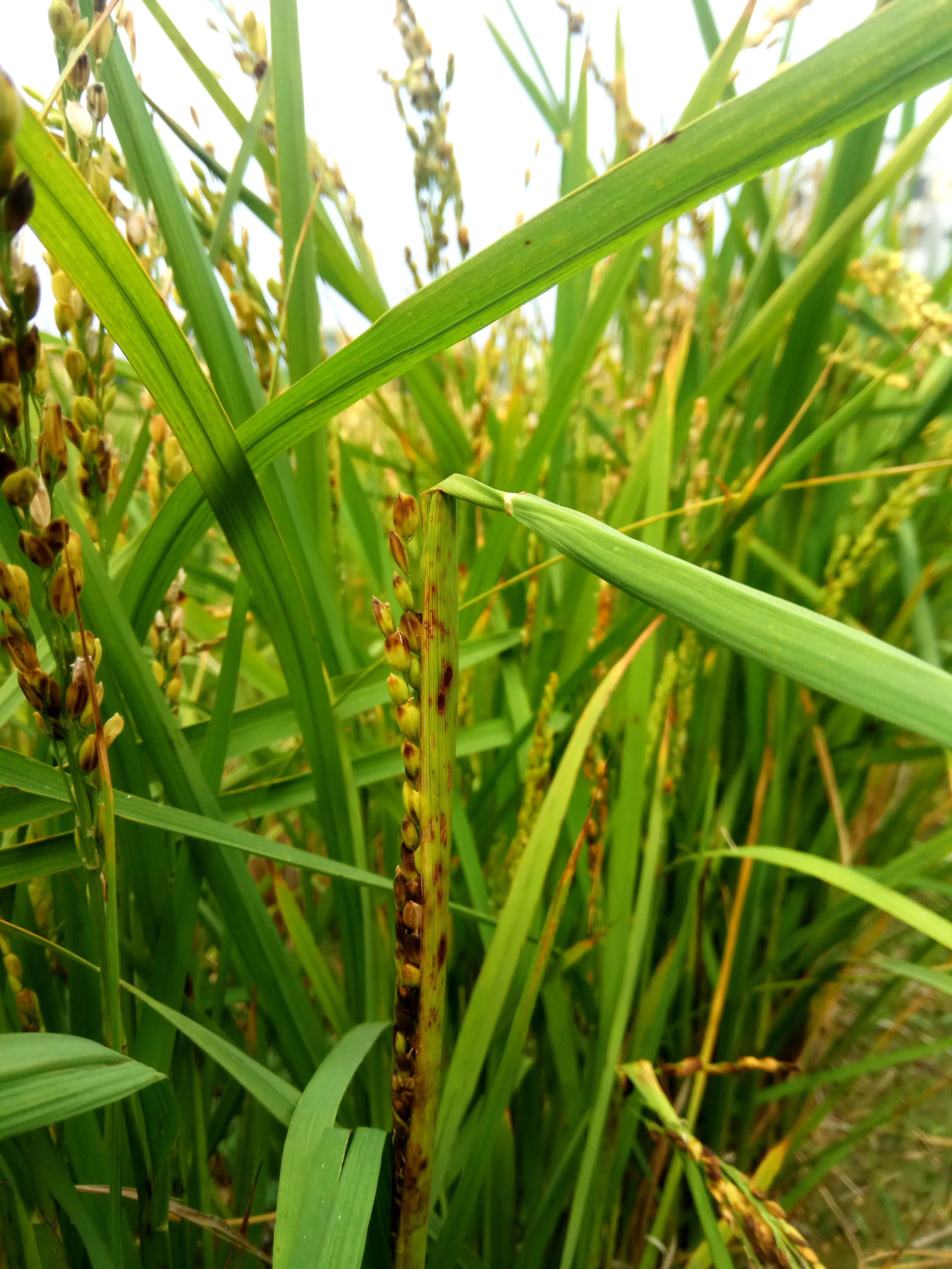 Rice infected by rice sheath rot fungus, Sarocladium oryzae.